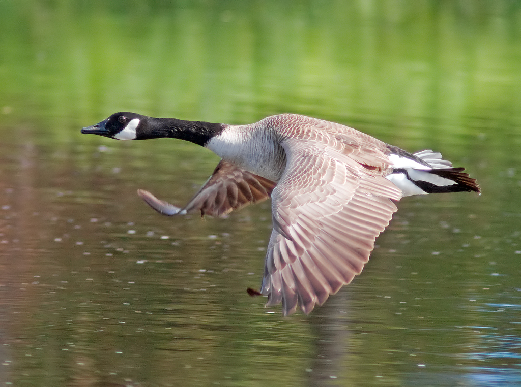 Branta canadensis in flight, Becks Landing, Delaware, USA.